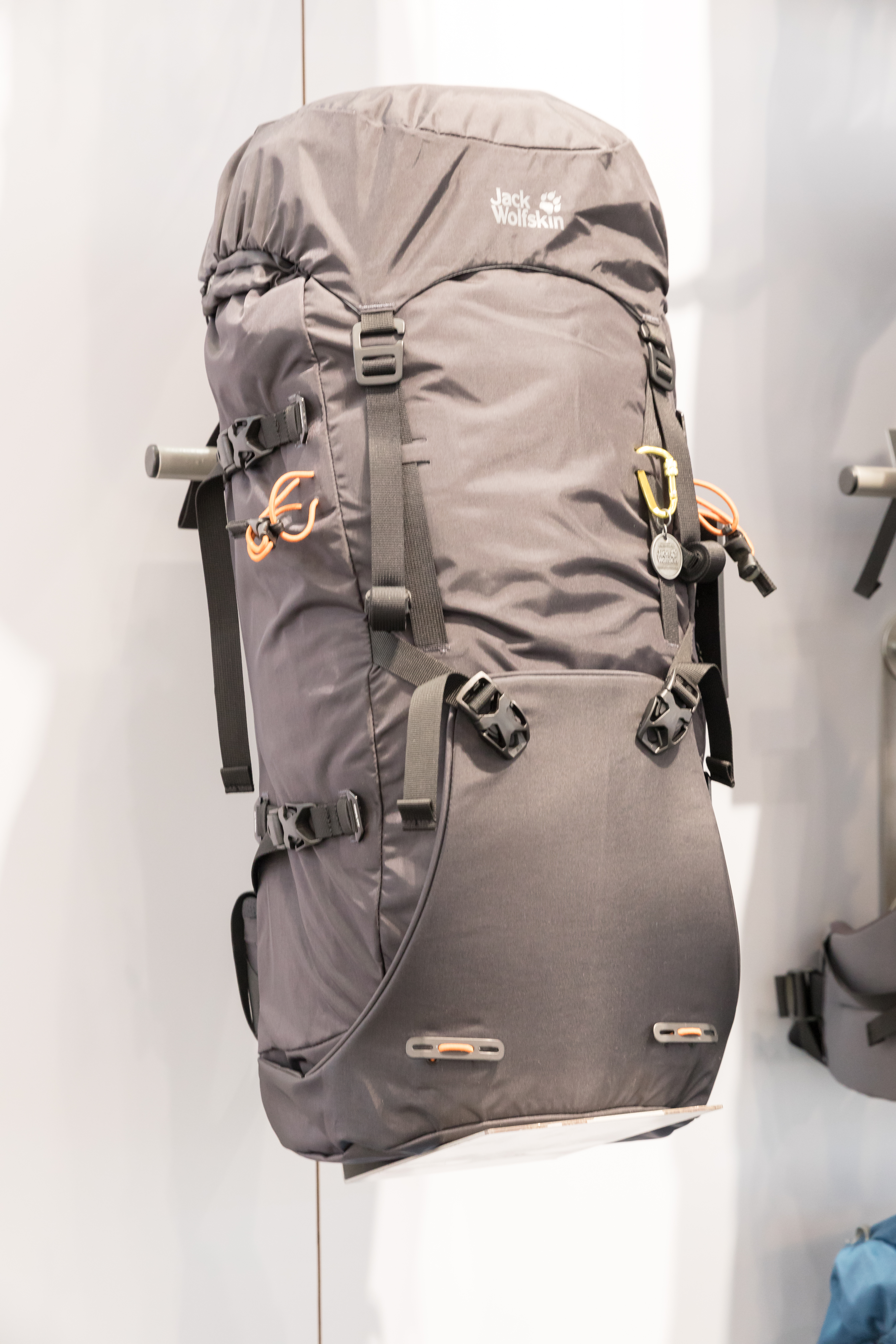 Jack Wolfskin backpack at OutDoor 2018